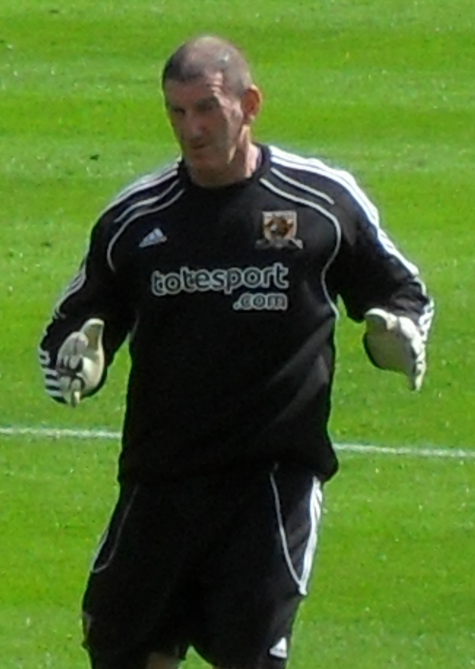 Mark Prudhoe warming up with Hull City against York City at Bootham Crescent, York on 17 July 2010